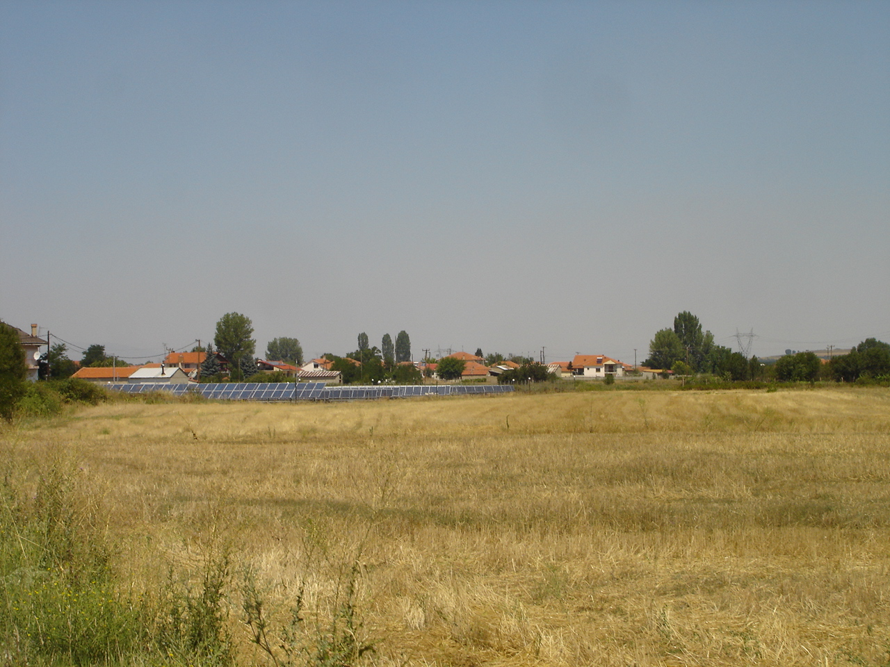 village of Vrbeni (Itea) in Aegean Macedonia, Florina Prefecture, Greece